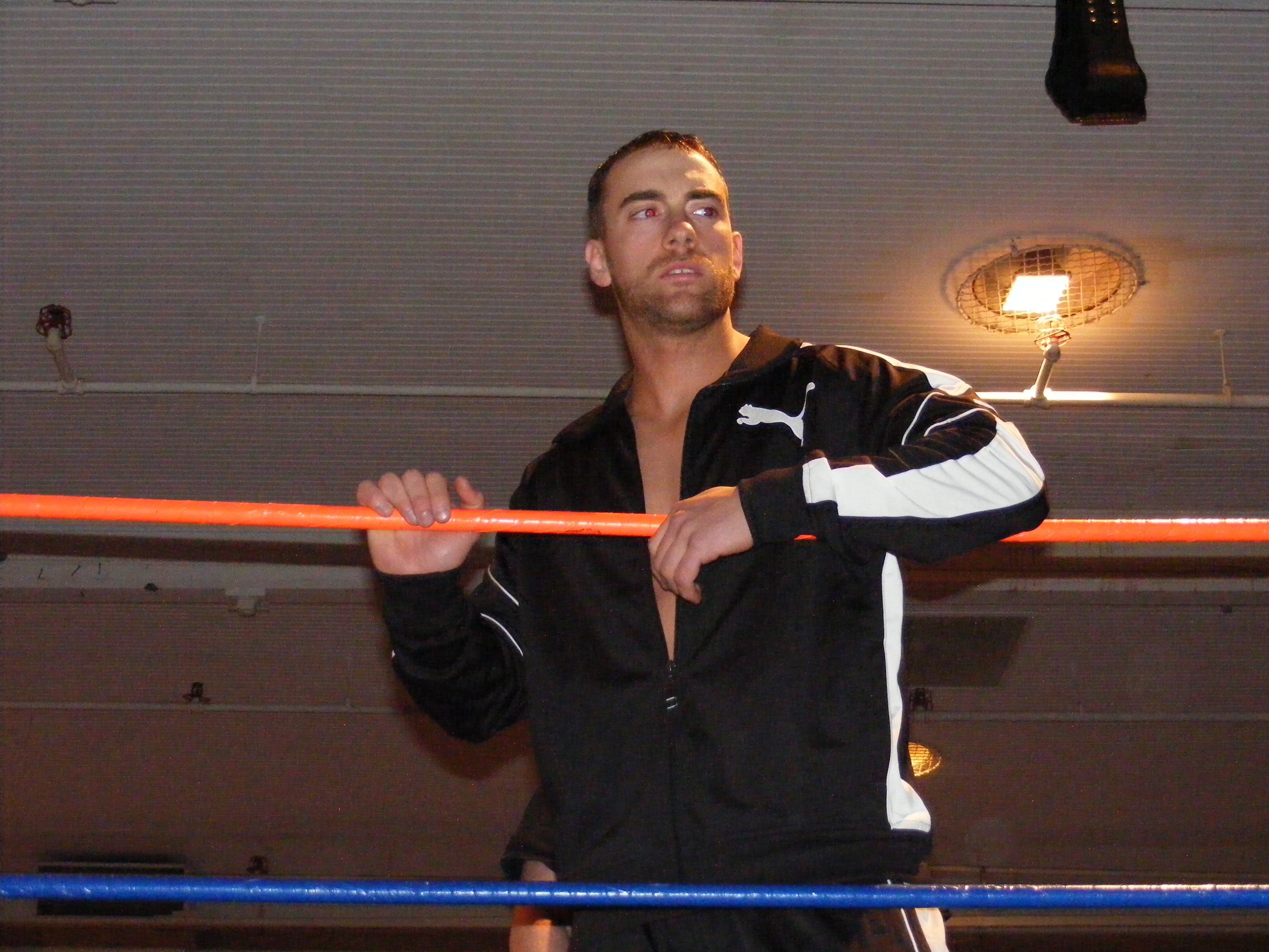 Pro wrestler "Hurricane" John Walters at a 2CW show on April 11, 2009 in Syracuse, New York.